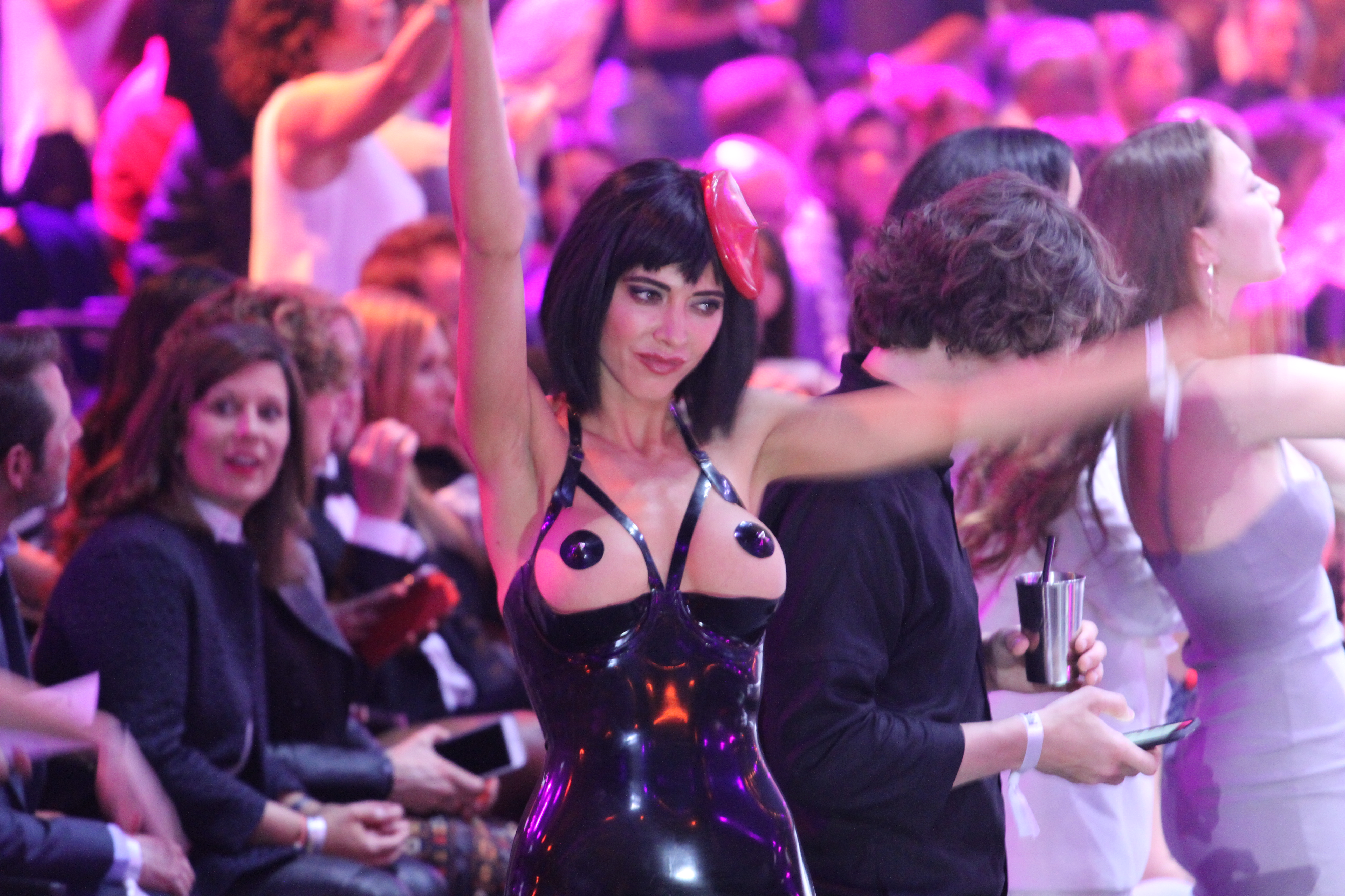 Milo Moiré at the Energy Fashion Night 2016.